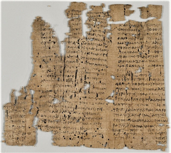 Papyrus Amherst 3a, 3b - Morgan Library, Pap. Gr. 3 - private letter + Epistle to Hebrews 1:1